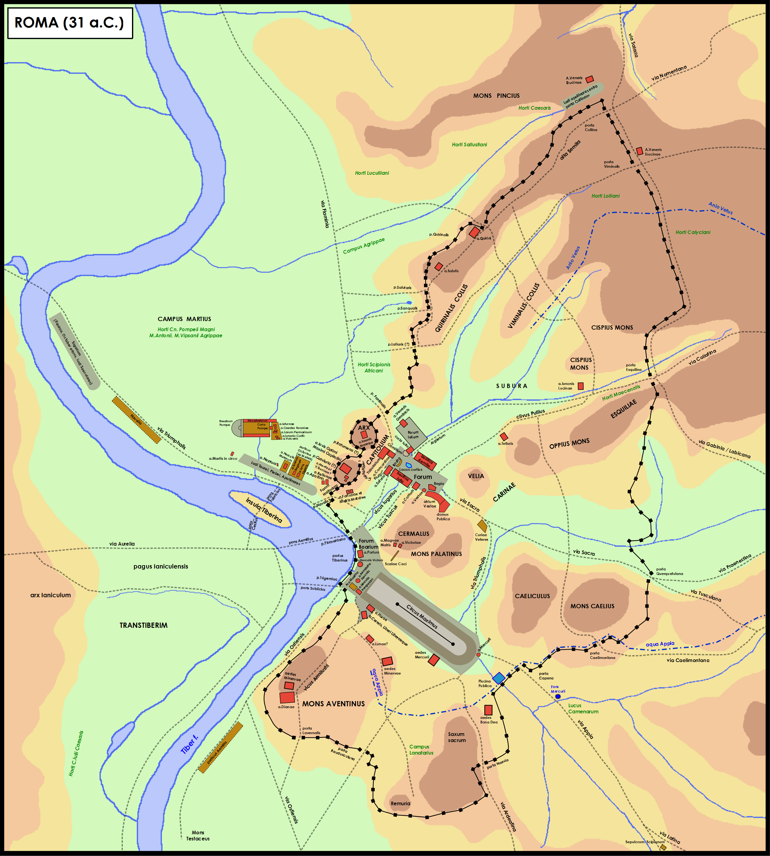 Ancient Rome at the time of battle of Actium (31 BC)